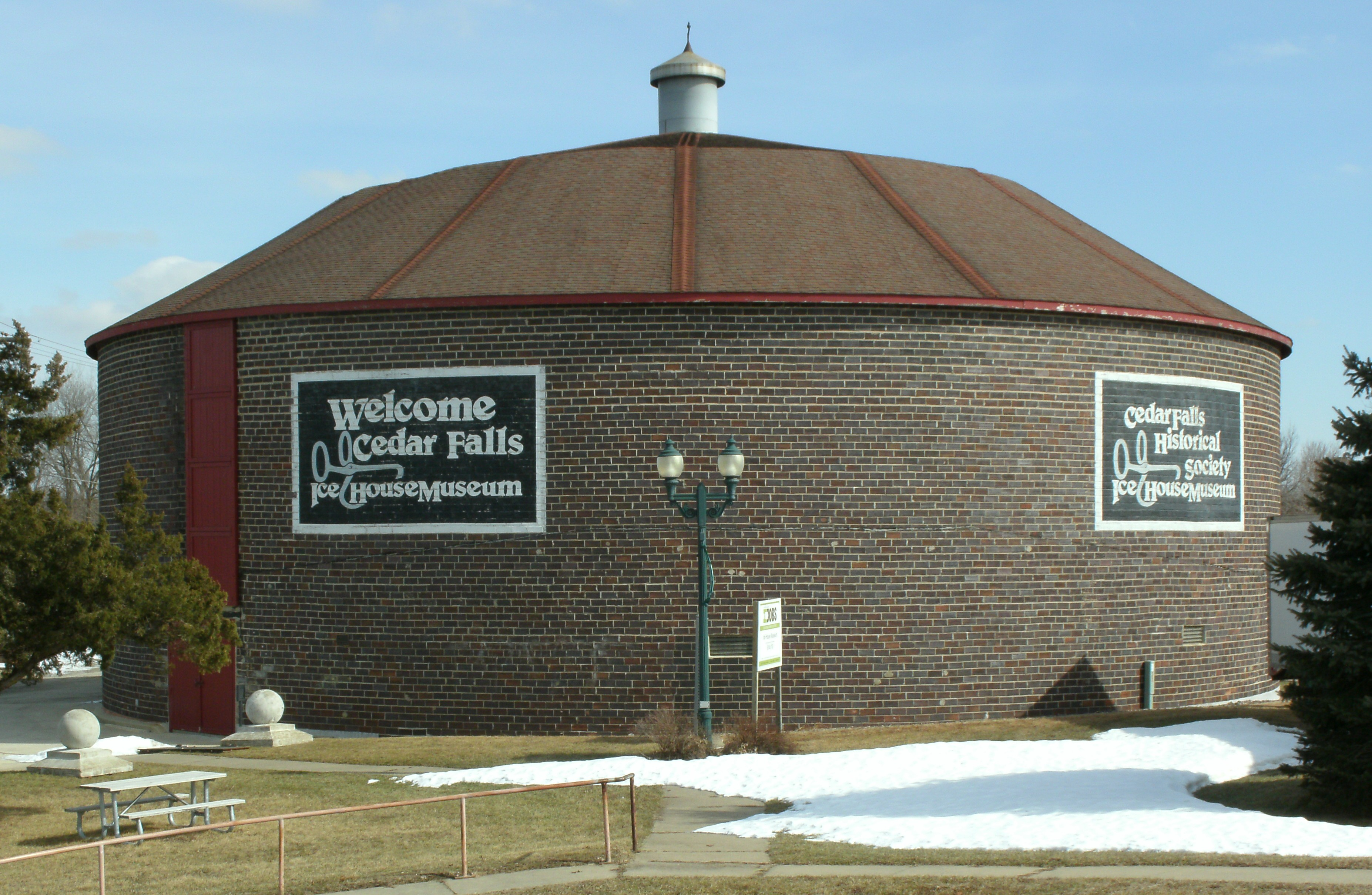 Cedar Falls Ice House located at Franklin Avenue and 1st Street in Cedar Falls, Black Hawk County, Iowa is on the National Register of Historic Places. An informational plaque for this building can be found at File:Ice House Cedar Falls IA Plaque pic1.JPG